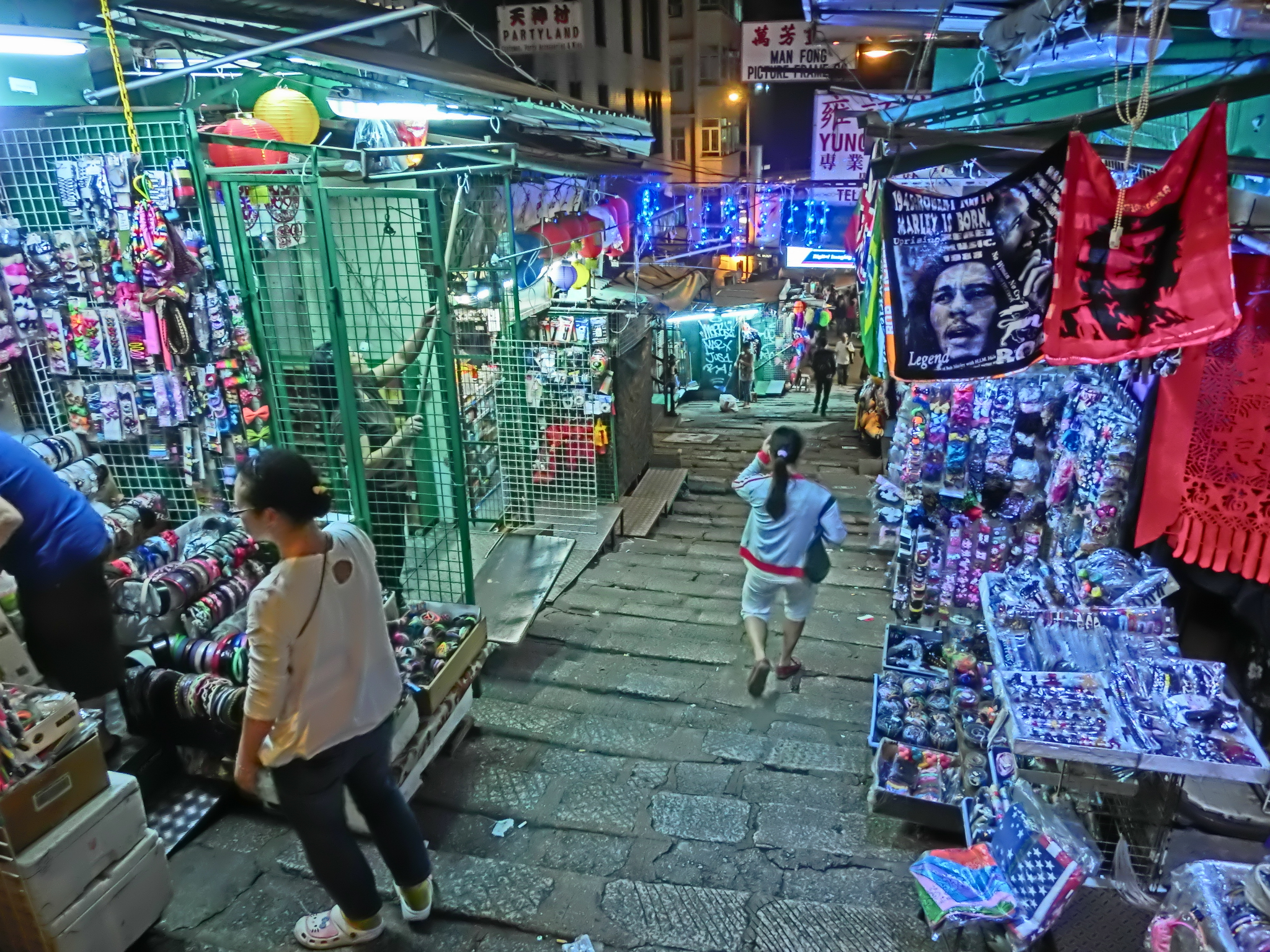 中環, Night in Central, Hong Kong